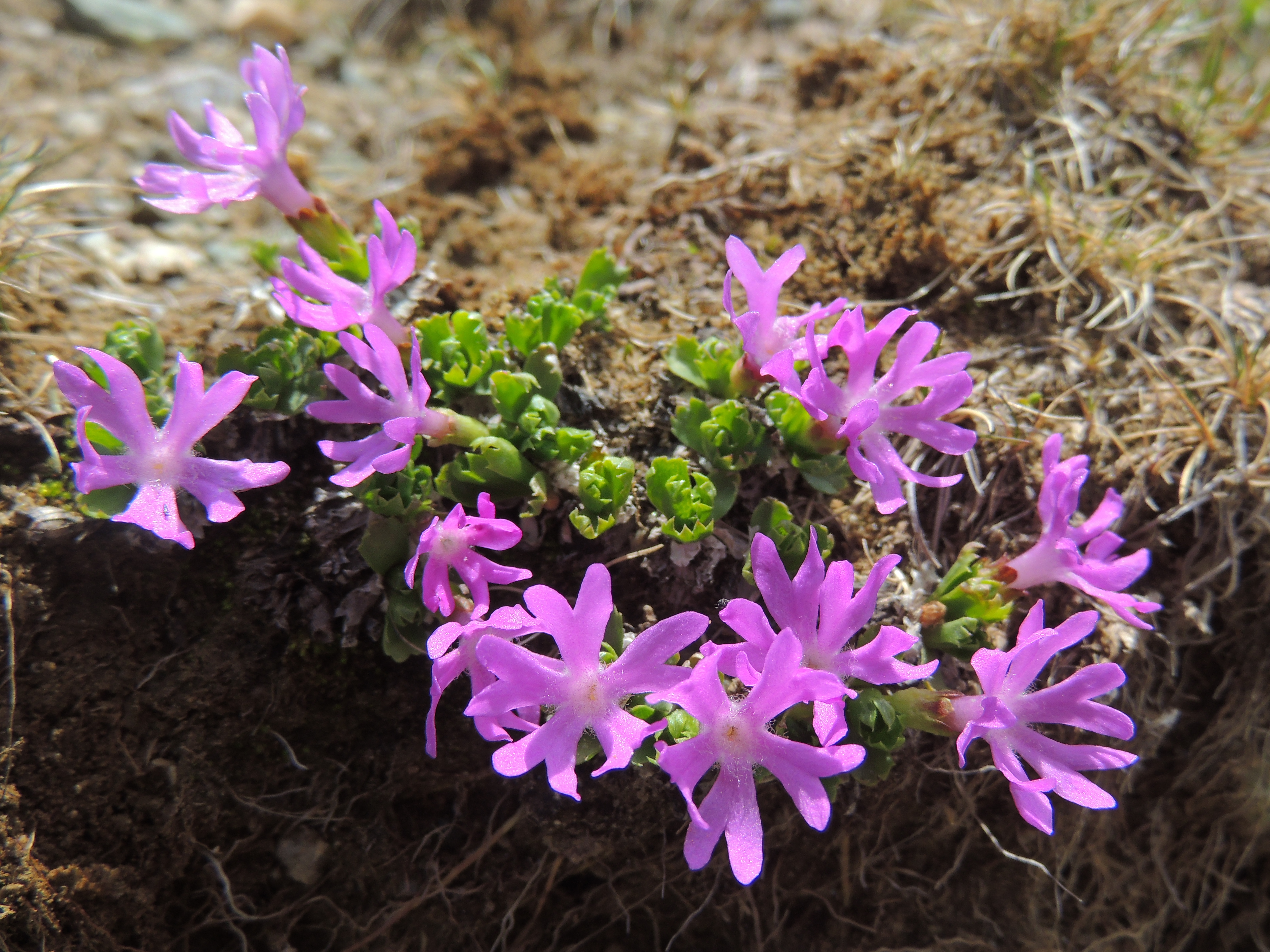 Least primrose (Primula minima), at Vârful cu Dor in Bucegi mountains, Romania